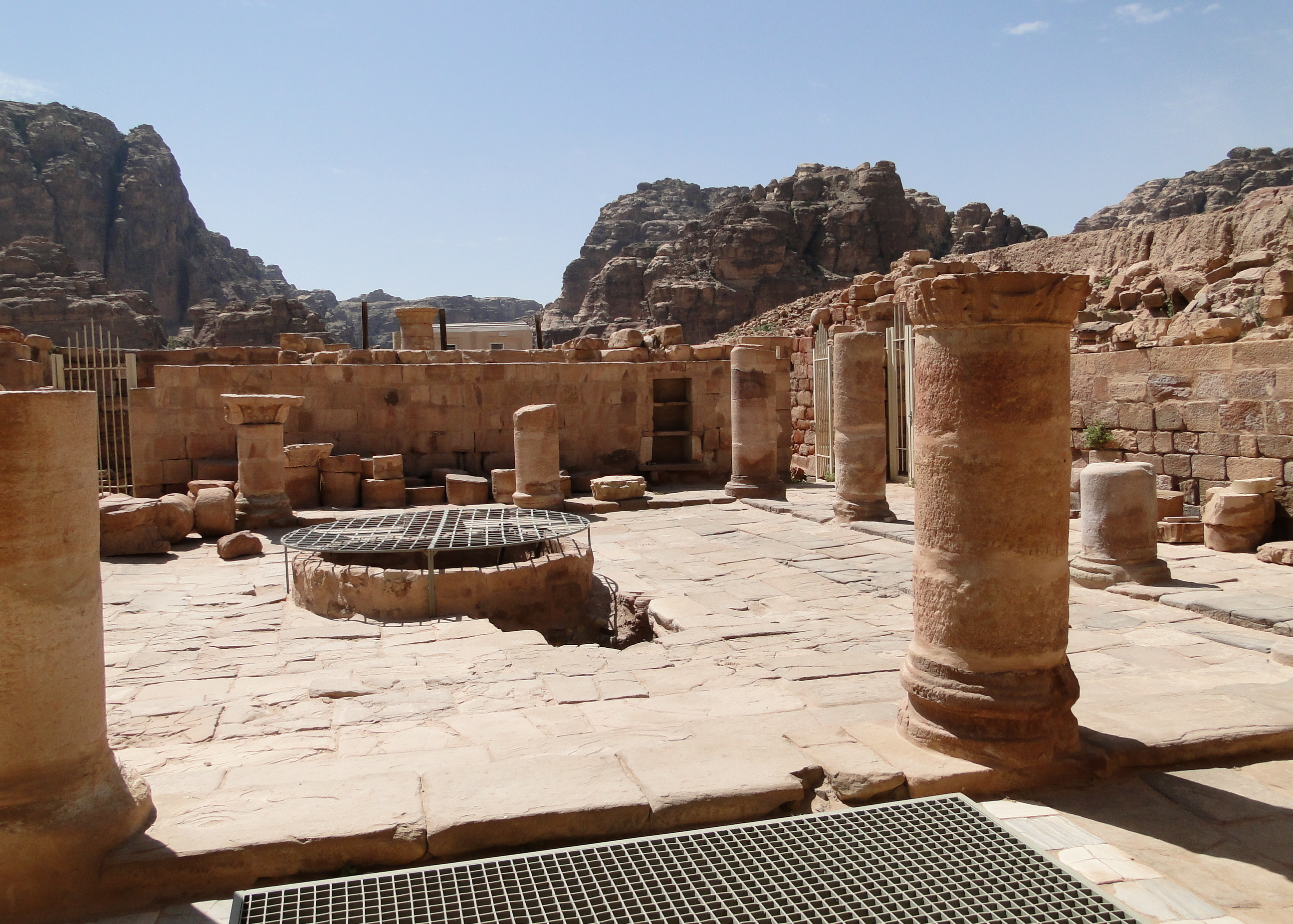 The atrium and the water cistern of the Byzantine Church of Petra, Jordan